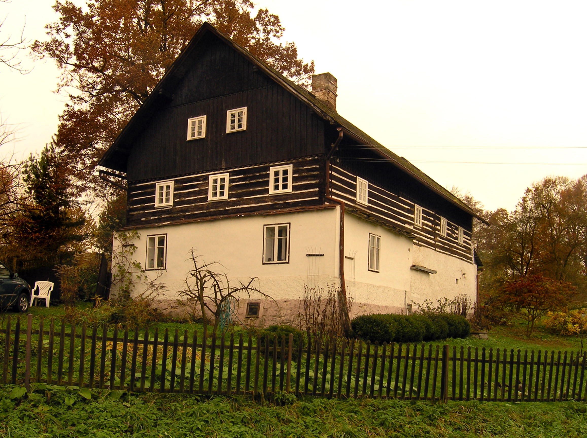 Stráž u České Lípy, part of Stružnice village, Czech Republic